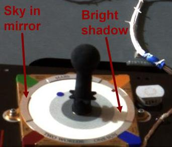 This image taken on Mars by the panoramic camera on the Mars Exploration Rover Spirit shows the rover's color calibration target, also known as the MarsDial. The target's mirror and the shadows cast on it by the Sun help scientists determine the degree to which dusty martian skies alter the panoramic camera's perception of color. By adjusting for this effect, Mars can be seen in all its true colors.